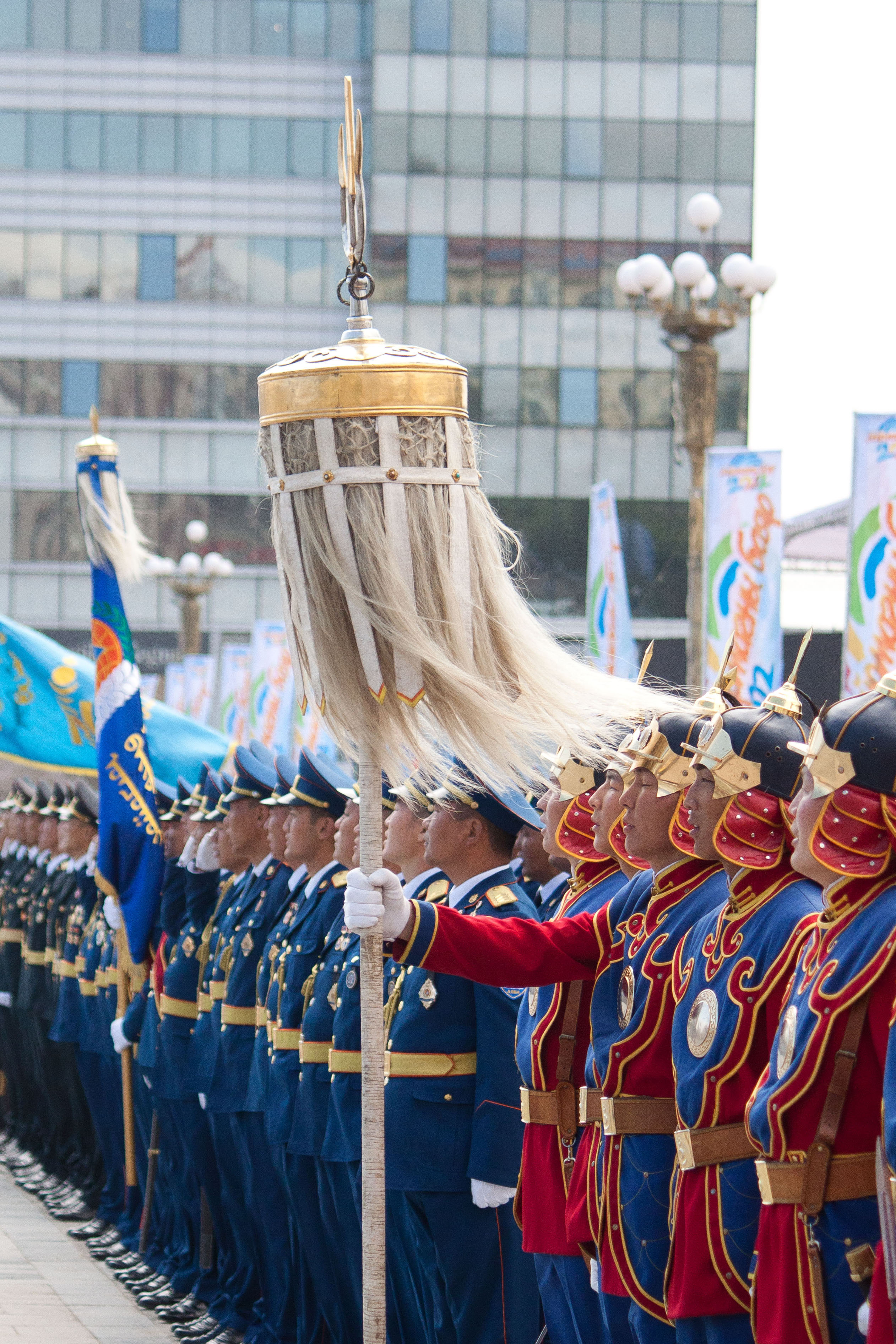 Mongol tug in Sukhbaatar Square